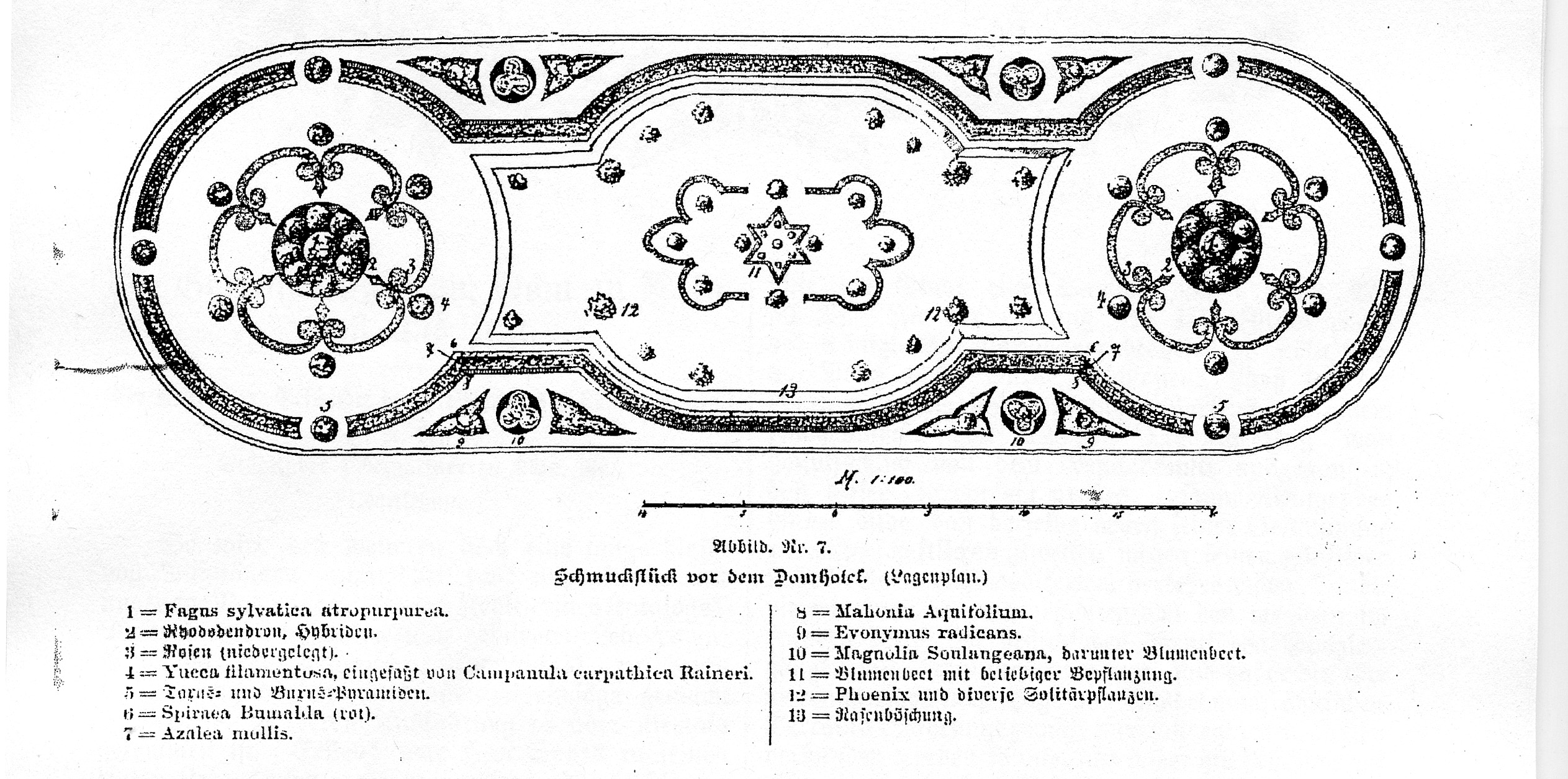 Cologne, landscape gardening 19th century